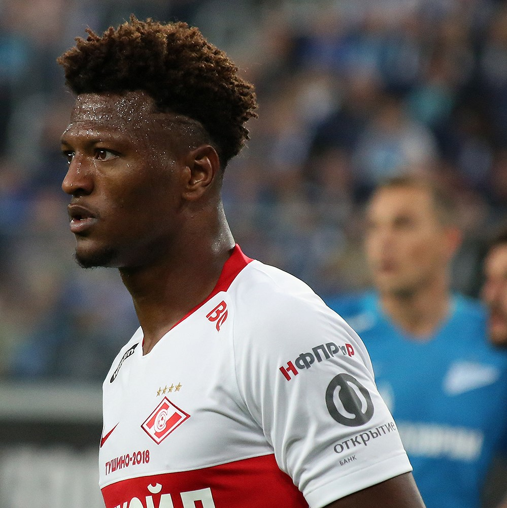 Zé Luís